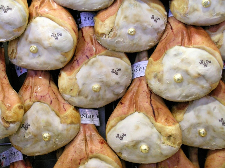 Prosciutto di San Daniele at the Central Market in Florence, Italy.